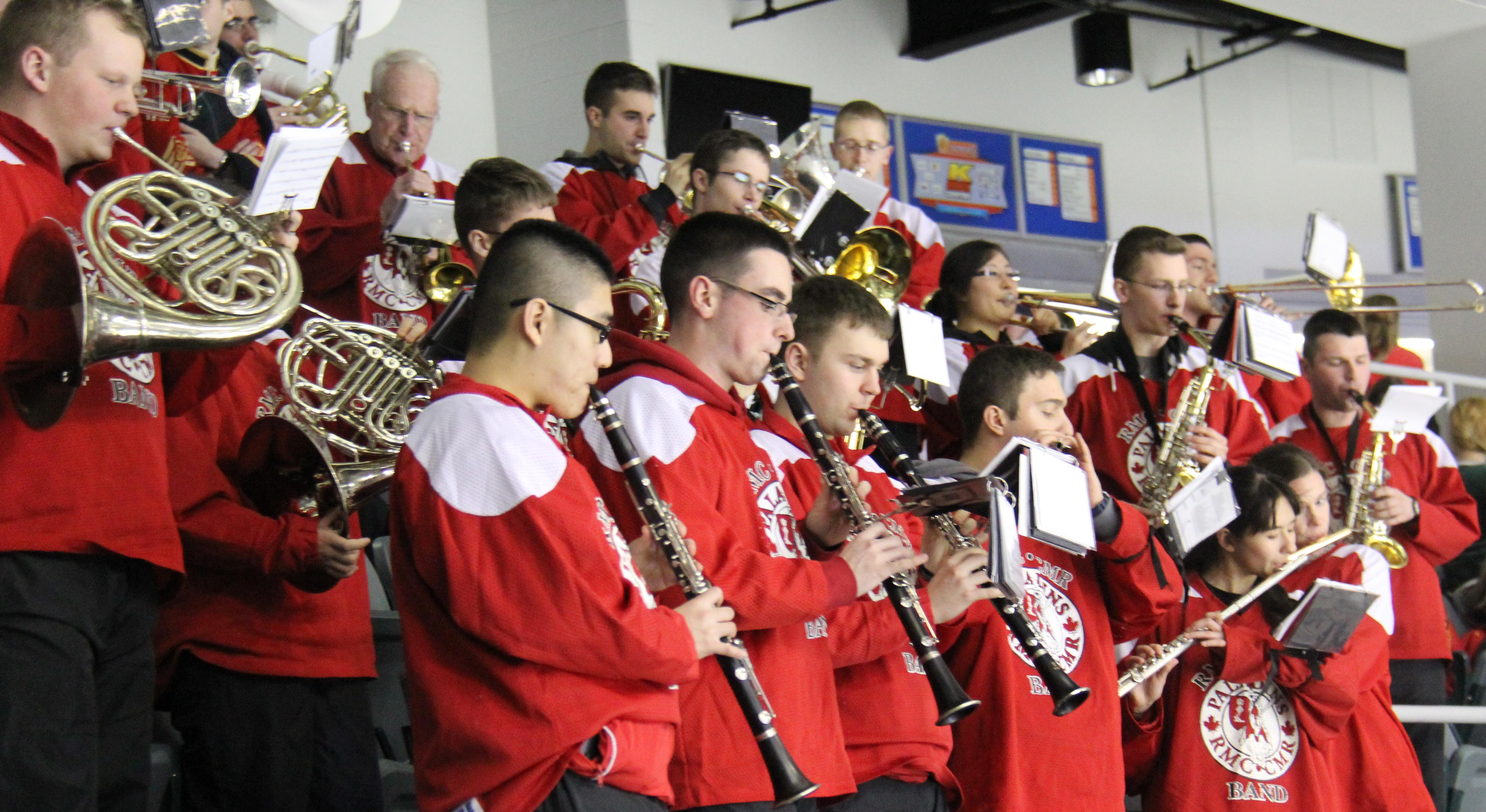 Royal Millitary College of Canada band plays @ Paladins hockey game Jan 2013, K-Rock Centre, Kingston, Ontario, Canada